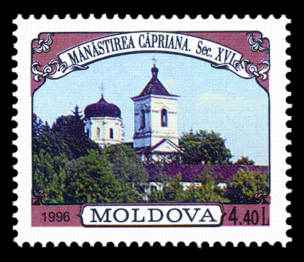 Stamp of Moldova